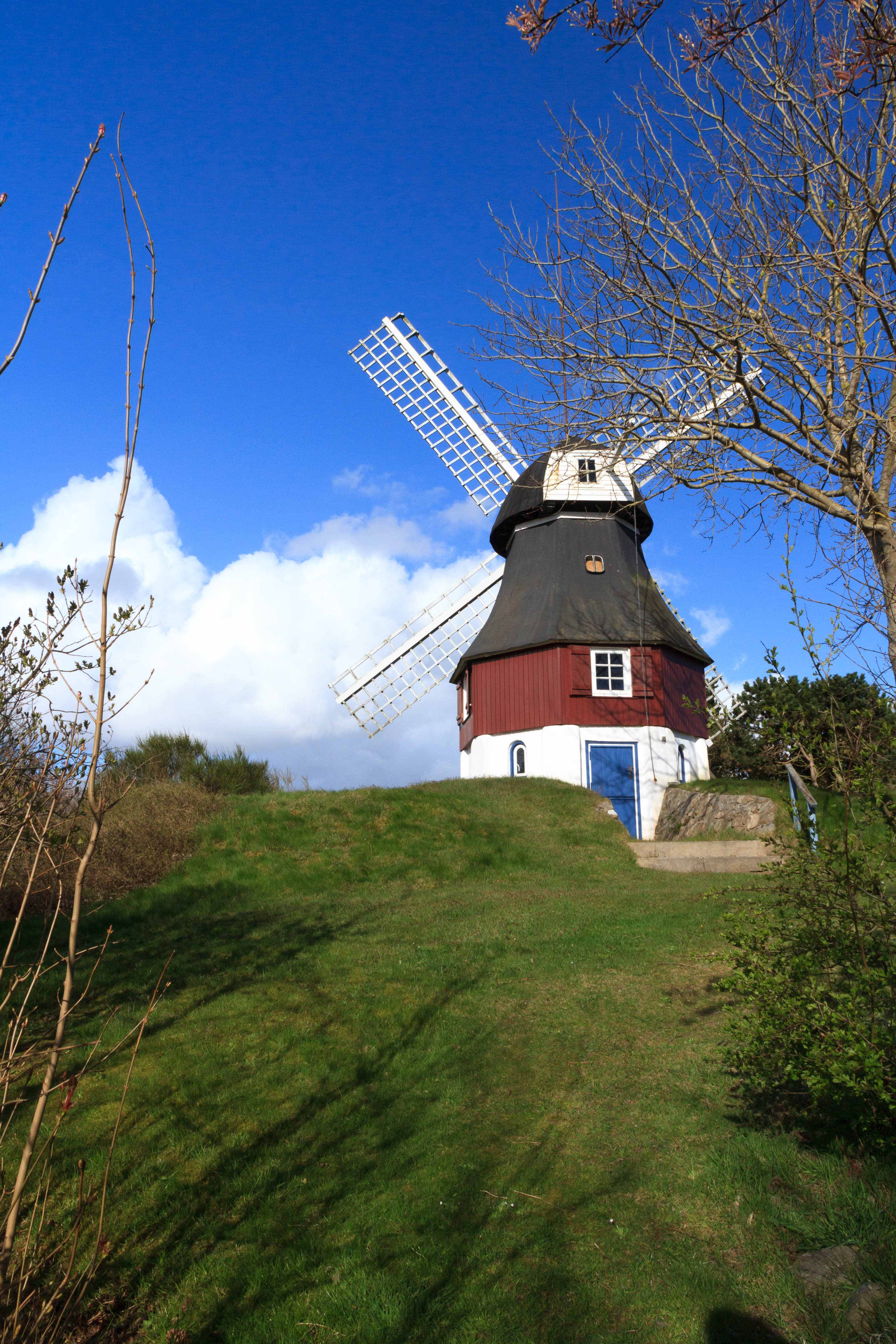 The making of this document was supported by the Community-Budget of Wikimedia Germany. Die Windmühle in Süddorf auf Amrum